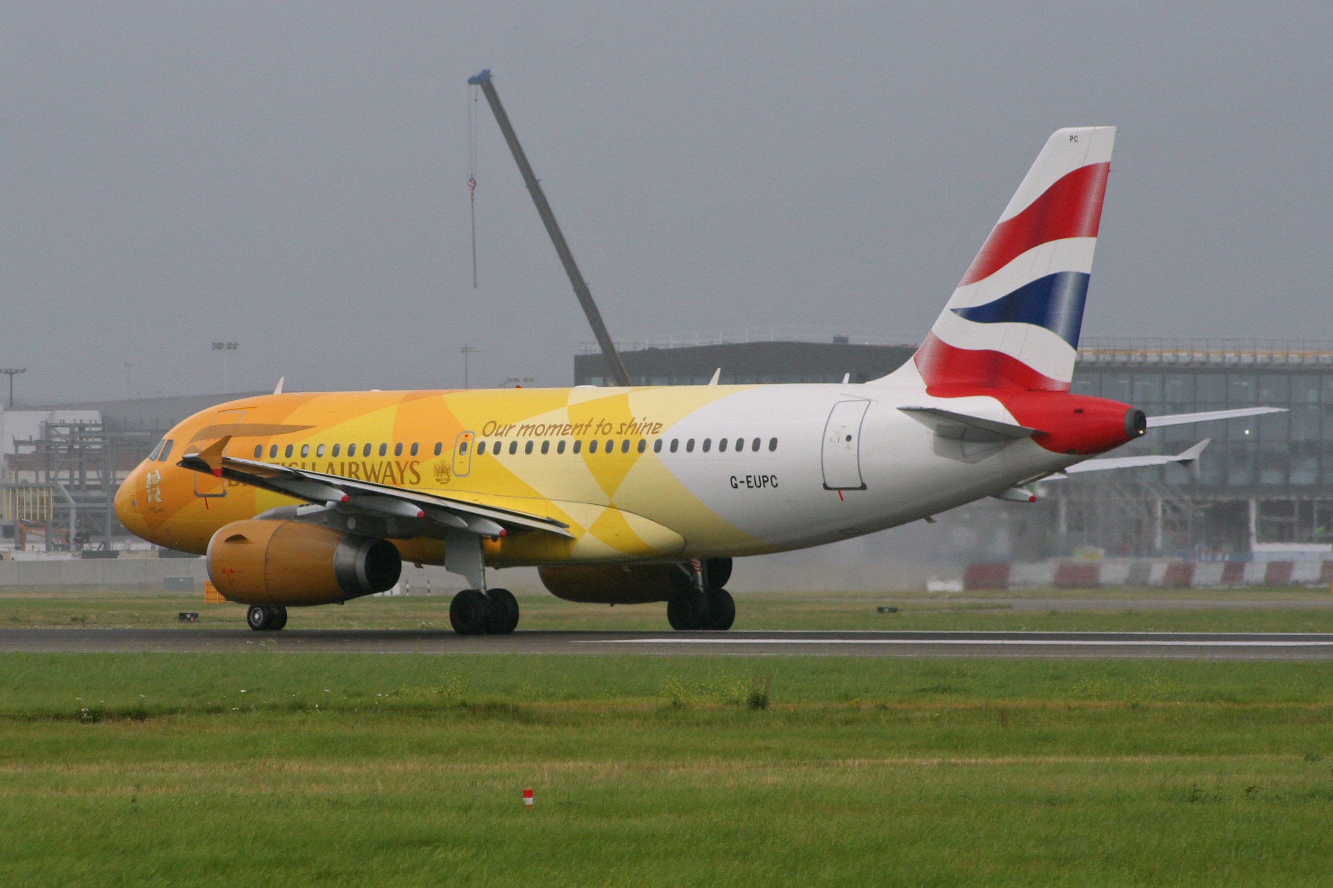 G-EUPC A319 BA nose shot of titles and Olympic emblem.